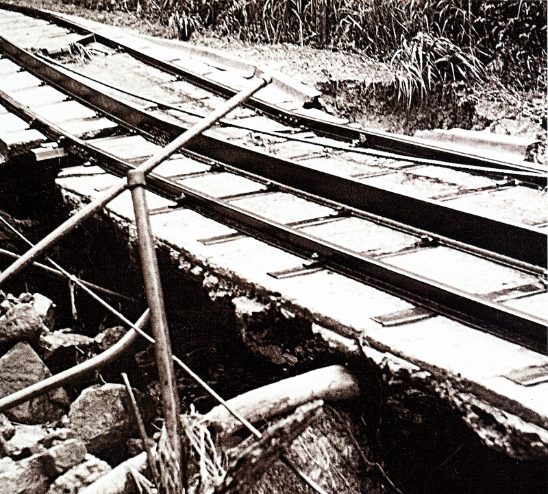 June 12 floods in 1966, Hong Kong.